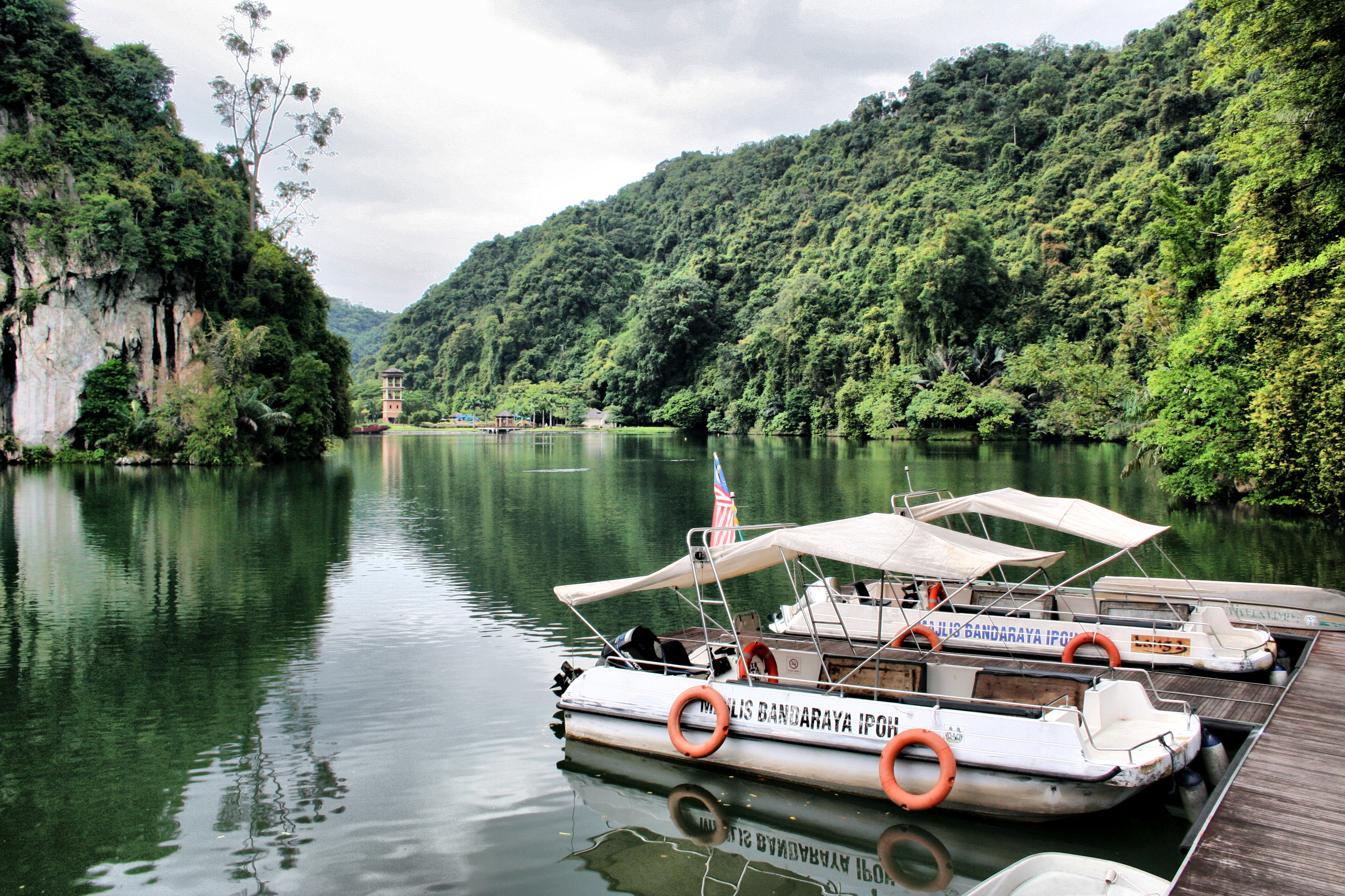 Gunung Lang is located at Jalan Kuala Kangsar, Ipoh. It is one of the tourist should not miss location while you're in Ipoh.